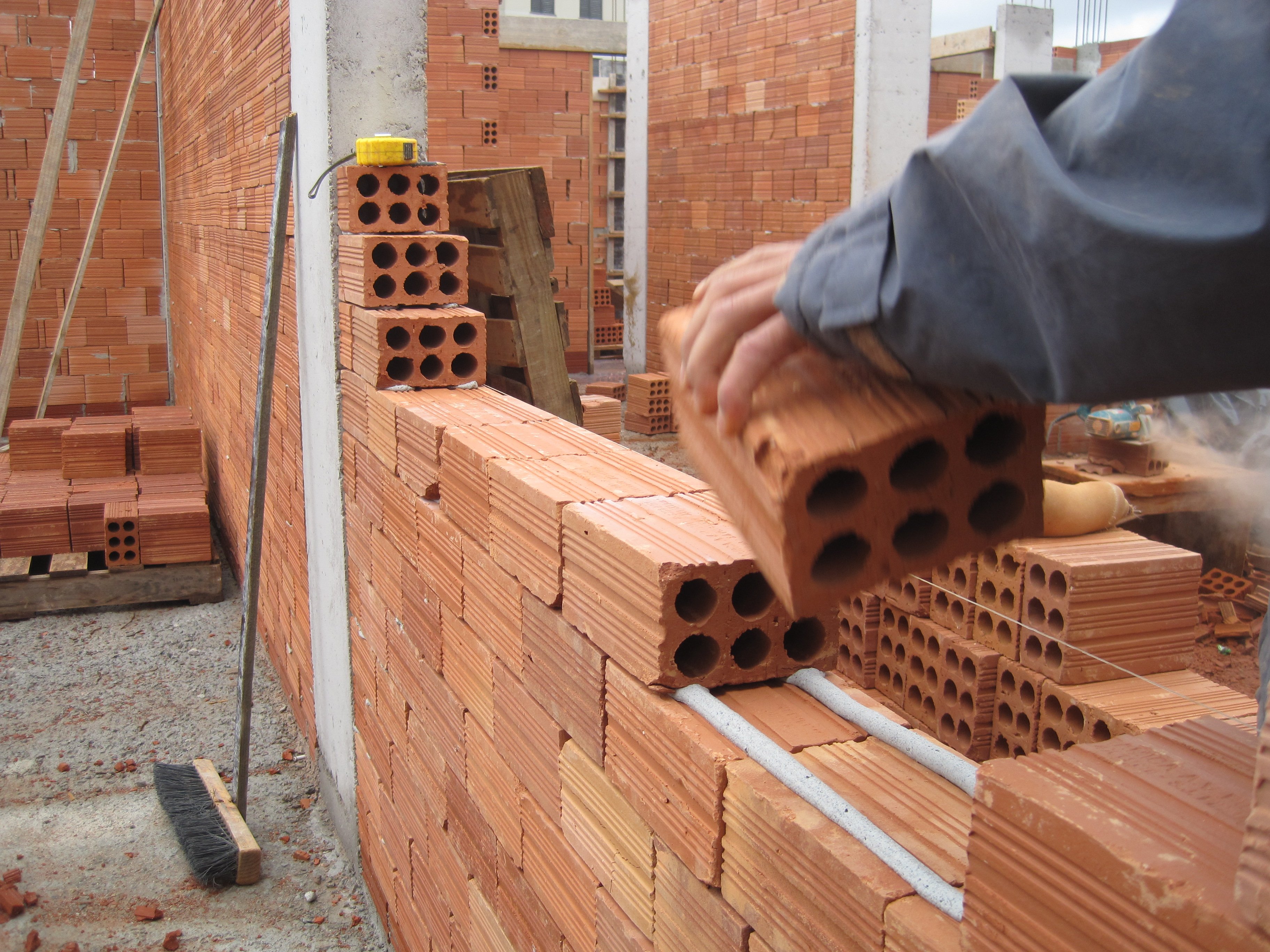 Polymeric mortar brick laying at construction site